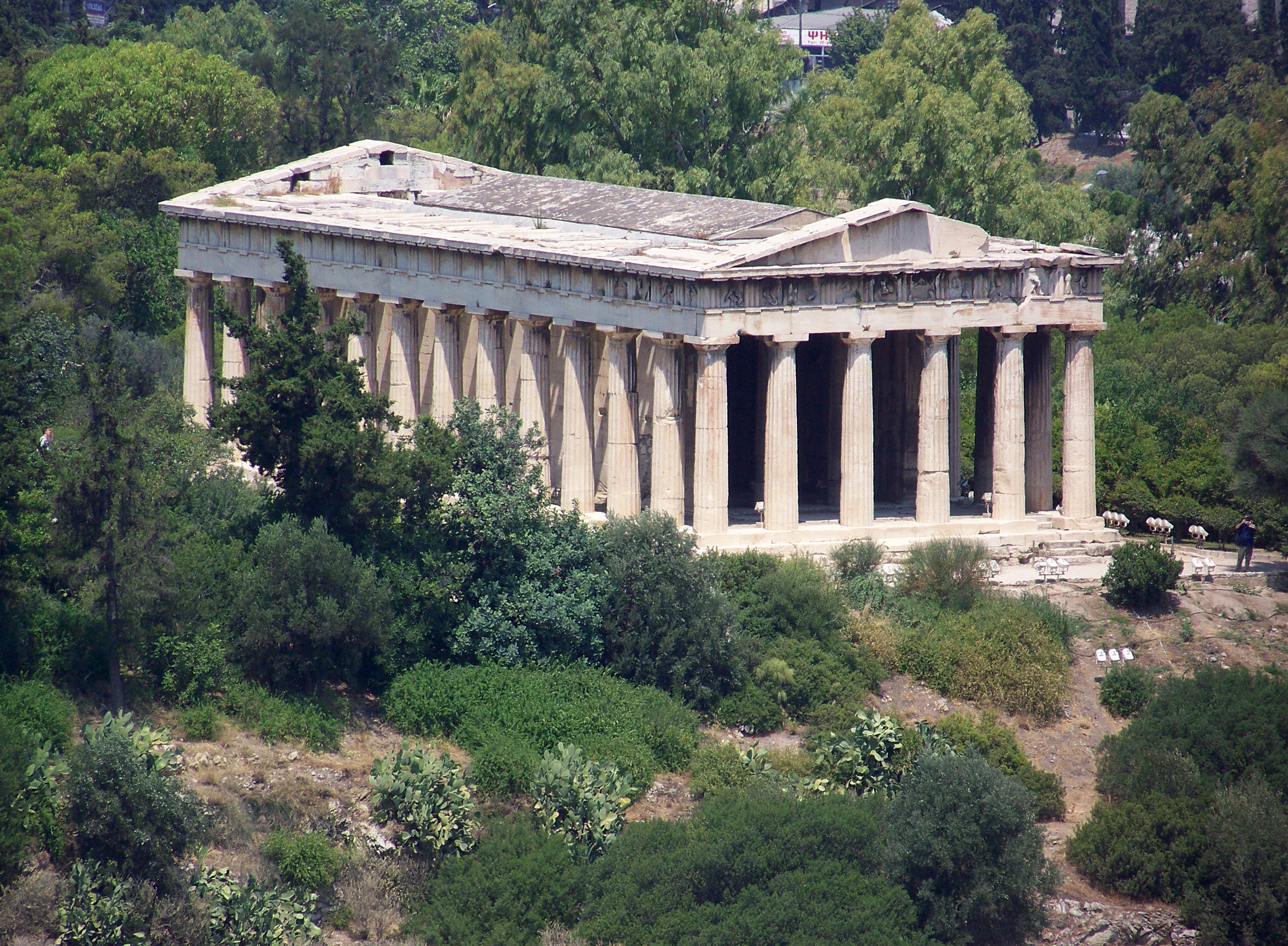 Hephaisteion of Athens, Greece.